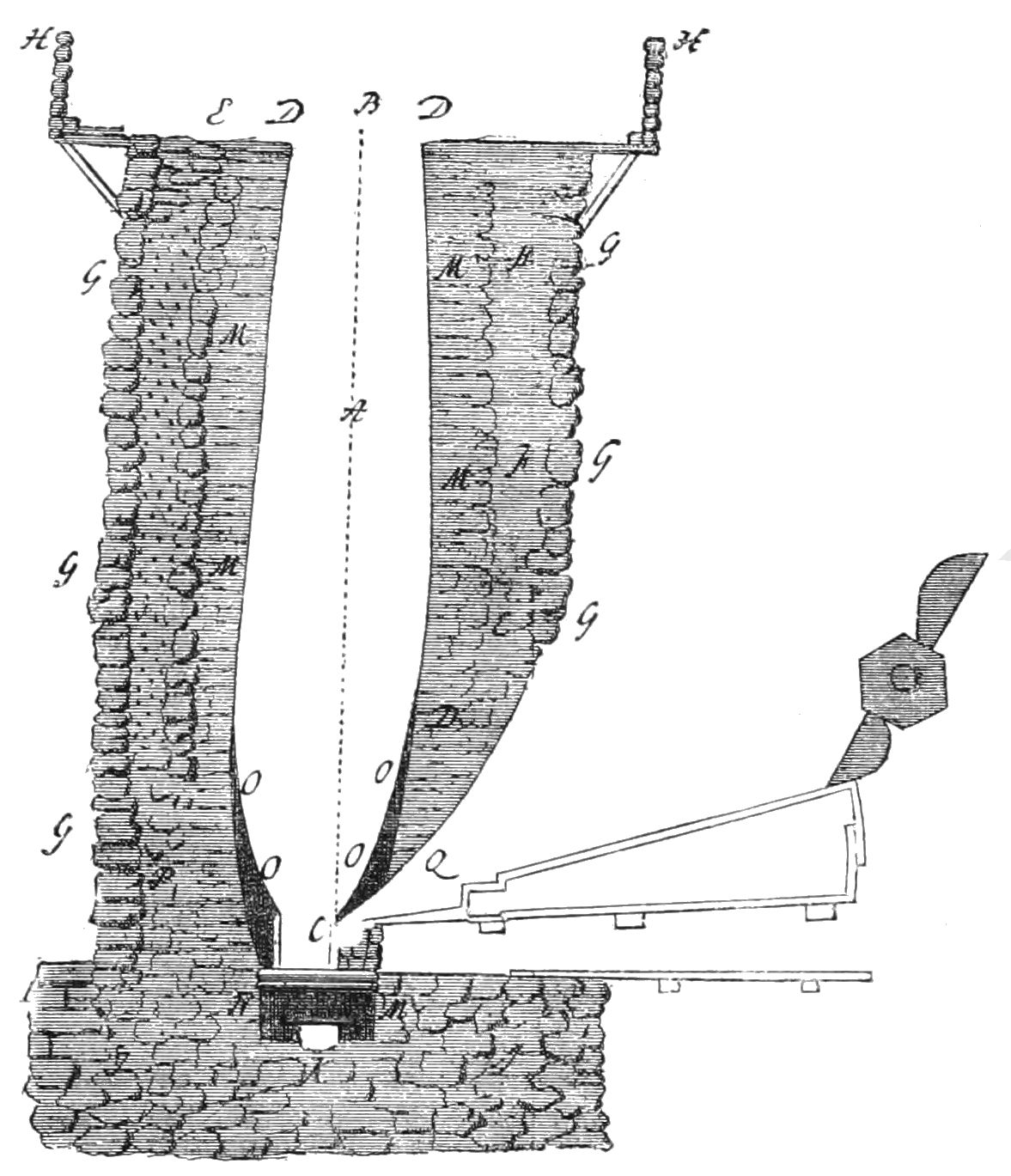 Vertical Section of a Blast-Furnace of the Seventeenth and Eighteenth Centuries.